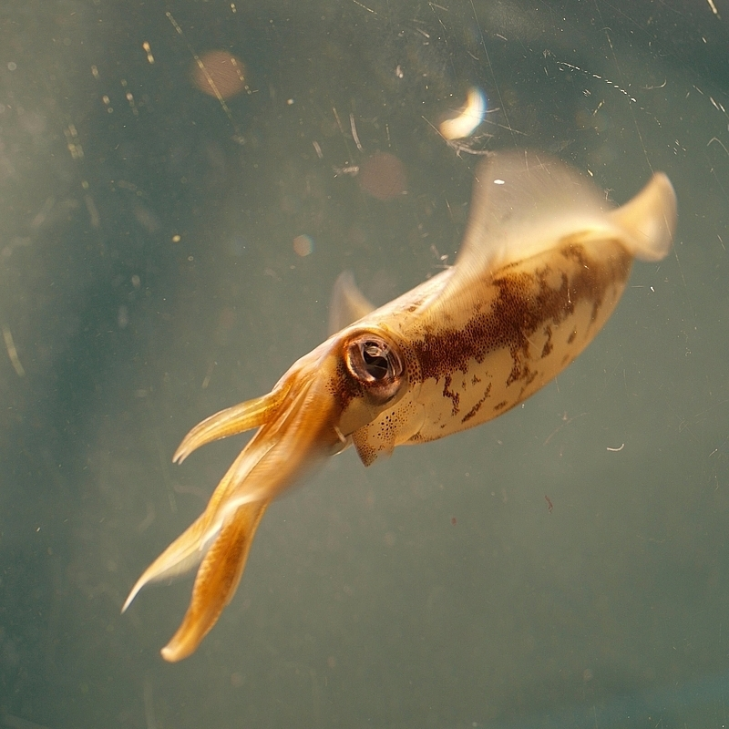 Mollusca Classis:Cephalopoda Ordo:Teuthida Familia:Loliginidae Genus: Sepioteuthis at Tokyo Sea Life Park (Kasai Rinkai Suizokuen), Japan